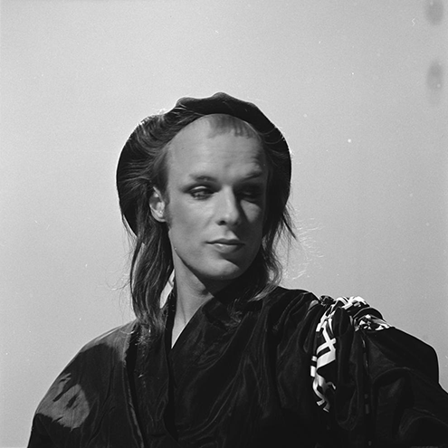 Brian Eno in AVRO's TopPop (Dutch television show) in 1974